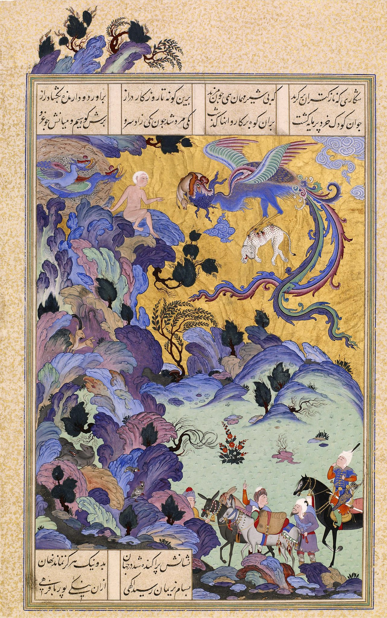 Attributed to Abdul Aziz, folio from Shahnama